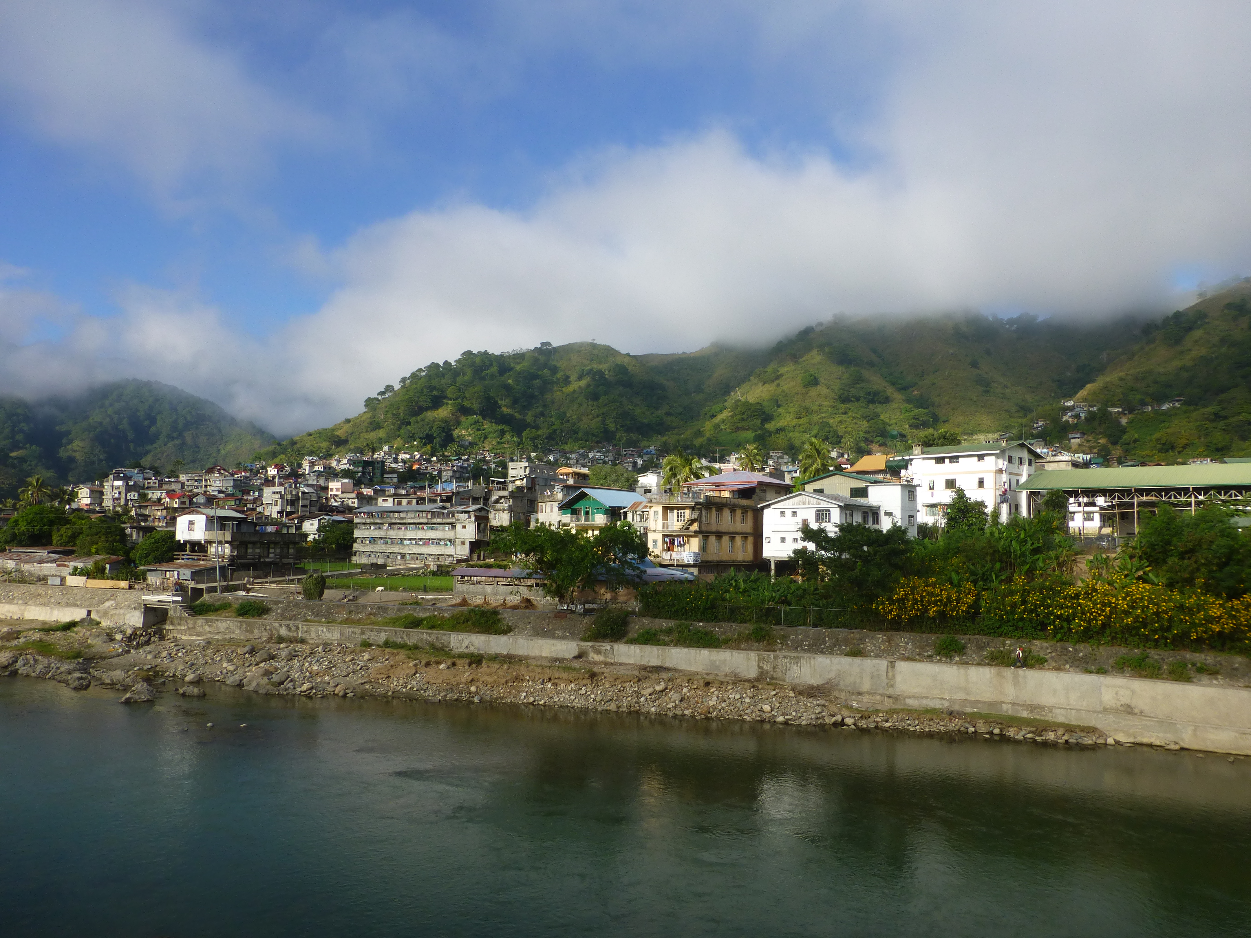 Bontoc, Mountain Province, Philippines. Western shore of the river Chico.